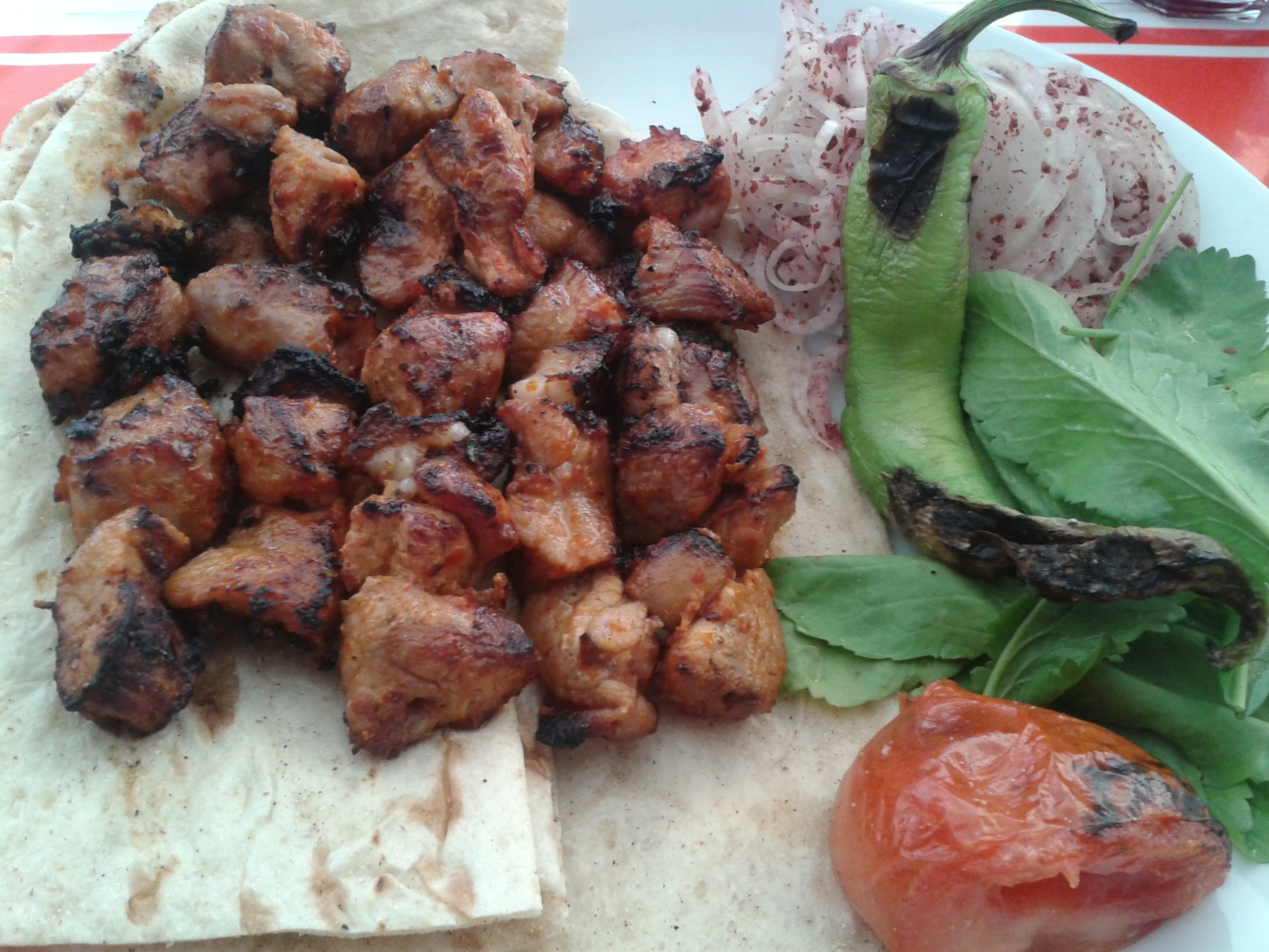 "Kuzu şiş" (lamb shish kebab) at Ankara